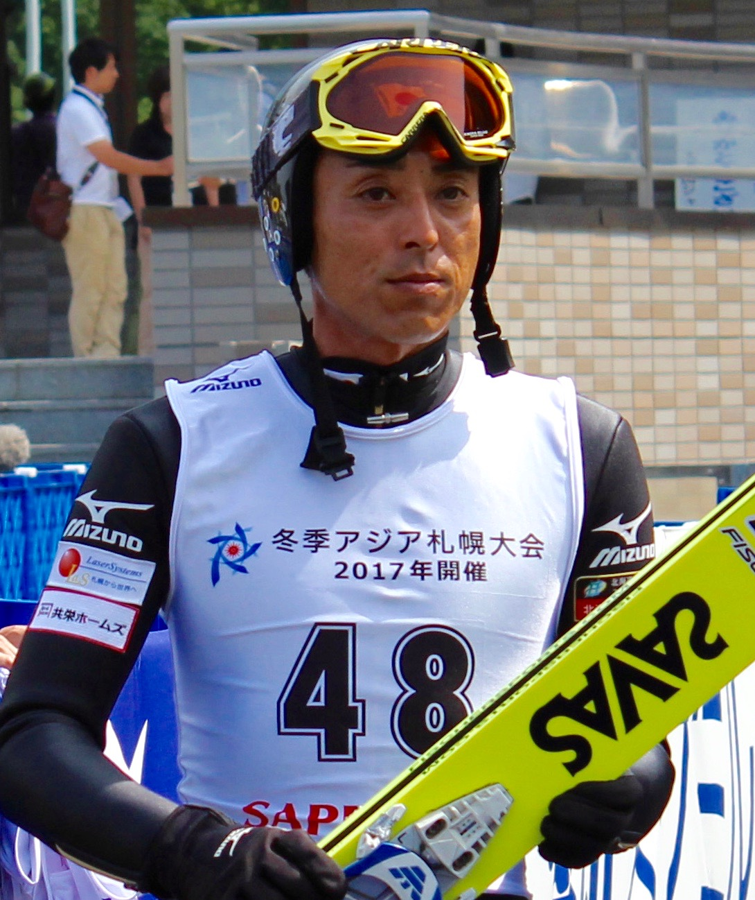 Photo of ski jumper Kazuyoshi Funaki at the 2014 Okurayama Summer Ski Jumping Championship.